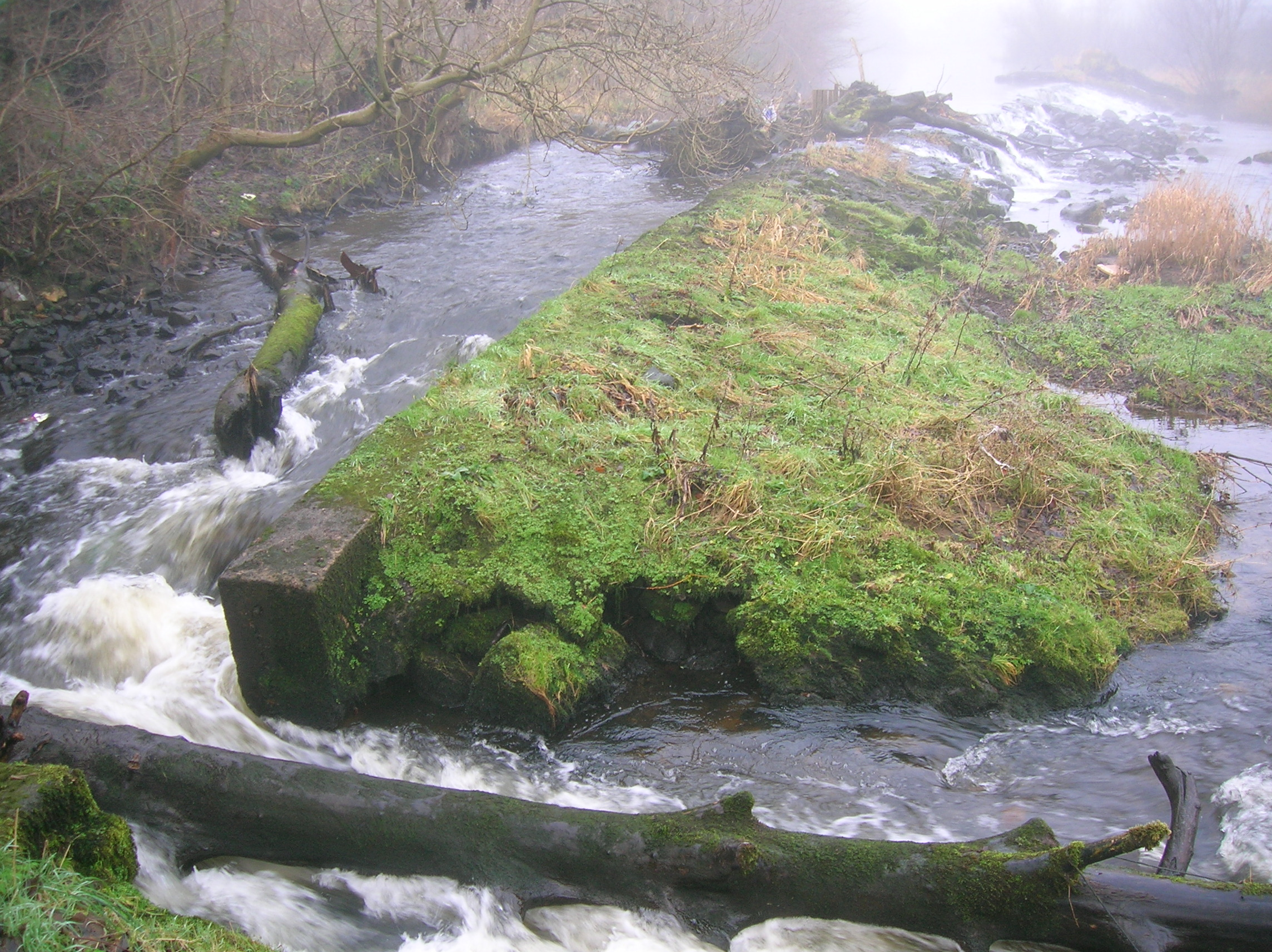 The old Bridgend Weir on the Garnock at Kilwinning, North Ayrshire, Scotland.